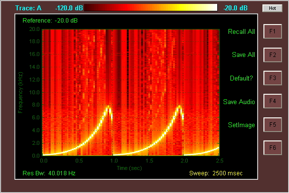 Spectrogram of an acoustic Exponential Chirp Waveform. Spectrogram generated with Fatpigdog's PC based Real Time FFT Spectrum Analyzer.